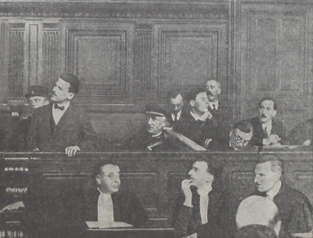 The Schwartzbard court trial Paris Oct 1927. Sholom Schwartzbard speech in the court. Below him, Henri Torrès, his attorney. Context: Sholom Schwartzbard assassinated Symon Petliura on May 25, 1926. He fully admitted to the crime. The trial turned on accusations of Petlura's responsibility for the 1919–1920 pogroms in Ukraine, during which Schwartzbard had lost all 15 members of his family. Schwartzbard was acquitted.